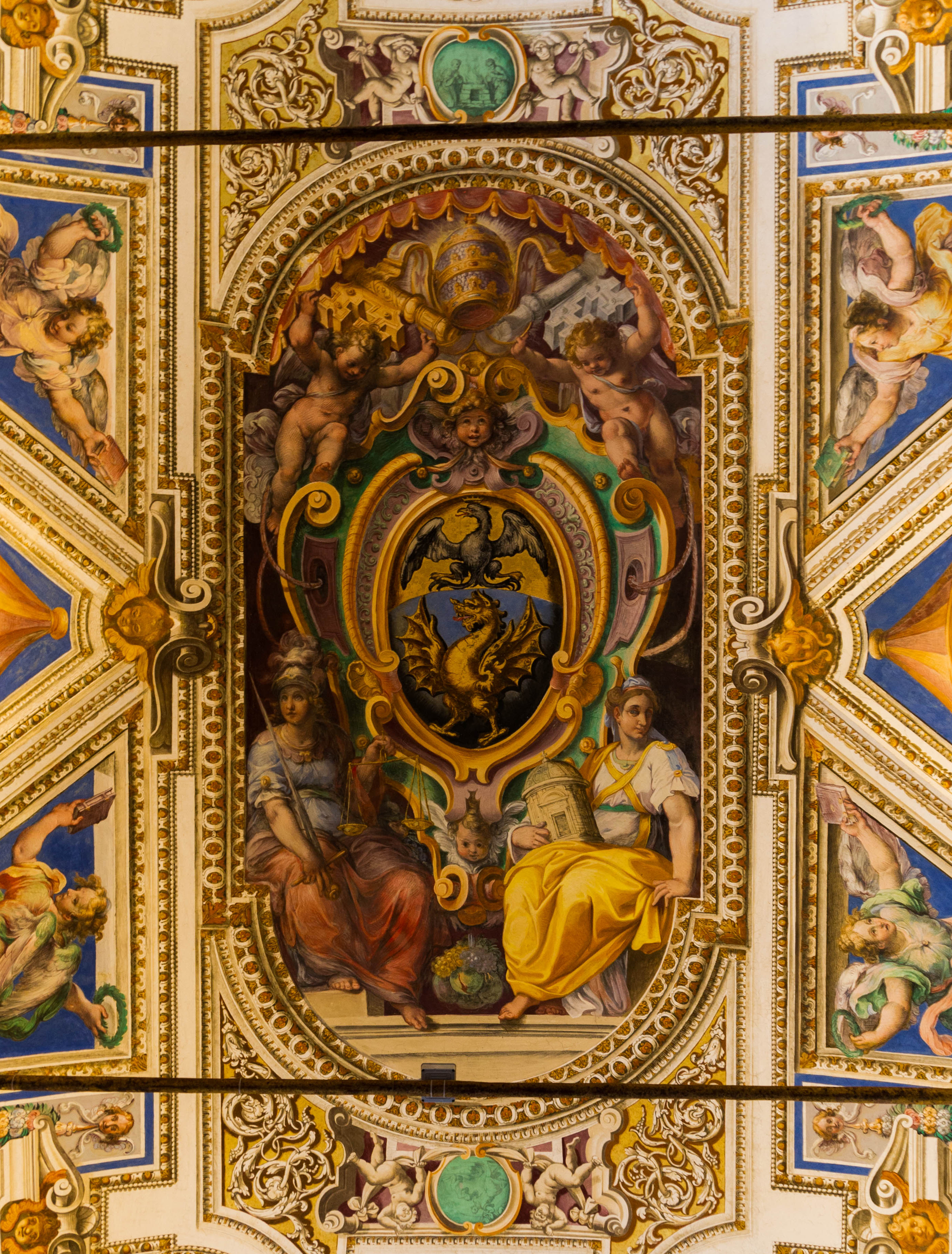 Painted CoA of Pope Paulus V, ceiling of the room of the geographical maps, Vatican City.